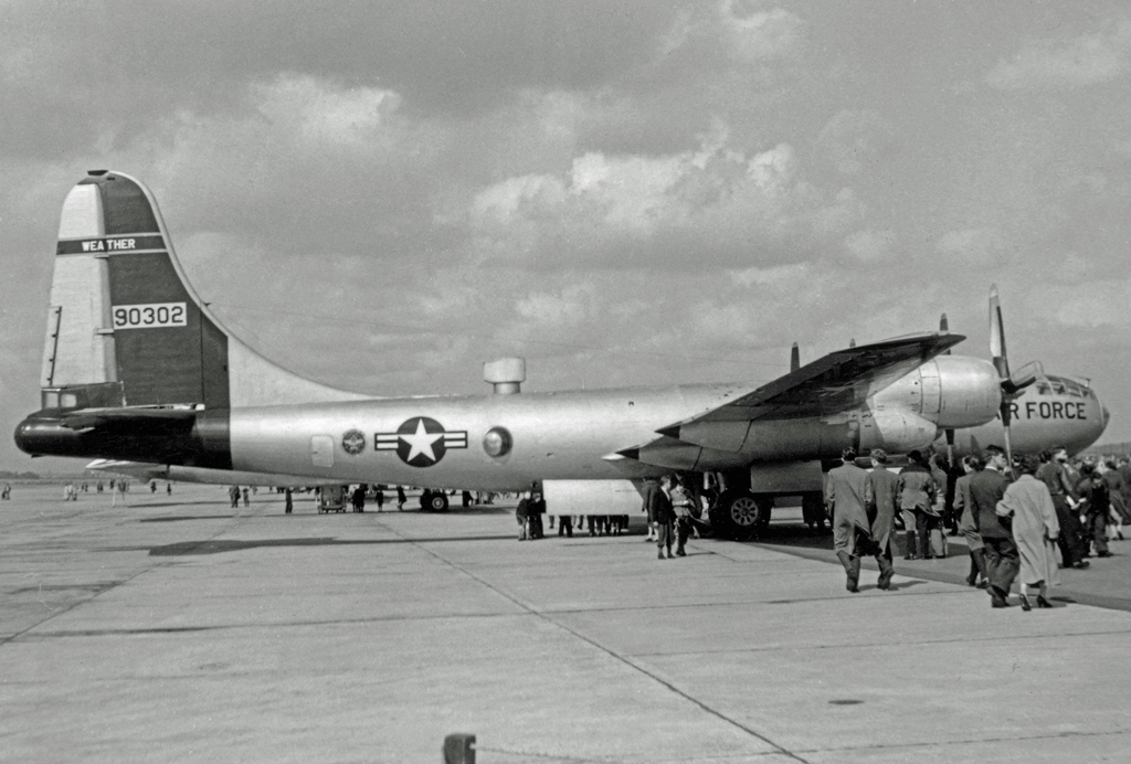 Boeing WB-50D Superfortress operated in the Weather Reconnaissance role by 53 Weather Reconnaissance Squadron based at Burtonwood, Lancashire.